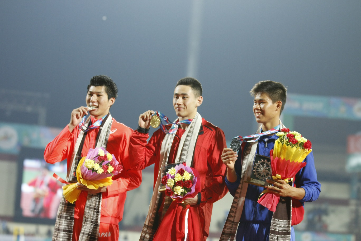 Athletes during 22nd Asian Athletics Championships in Bhubaneswar.